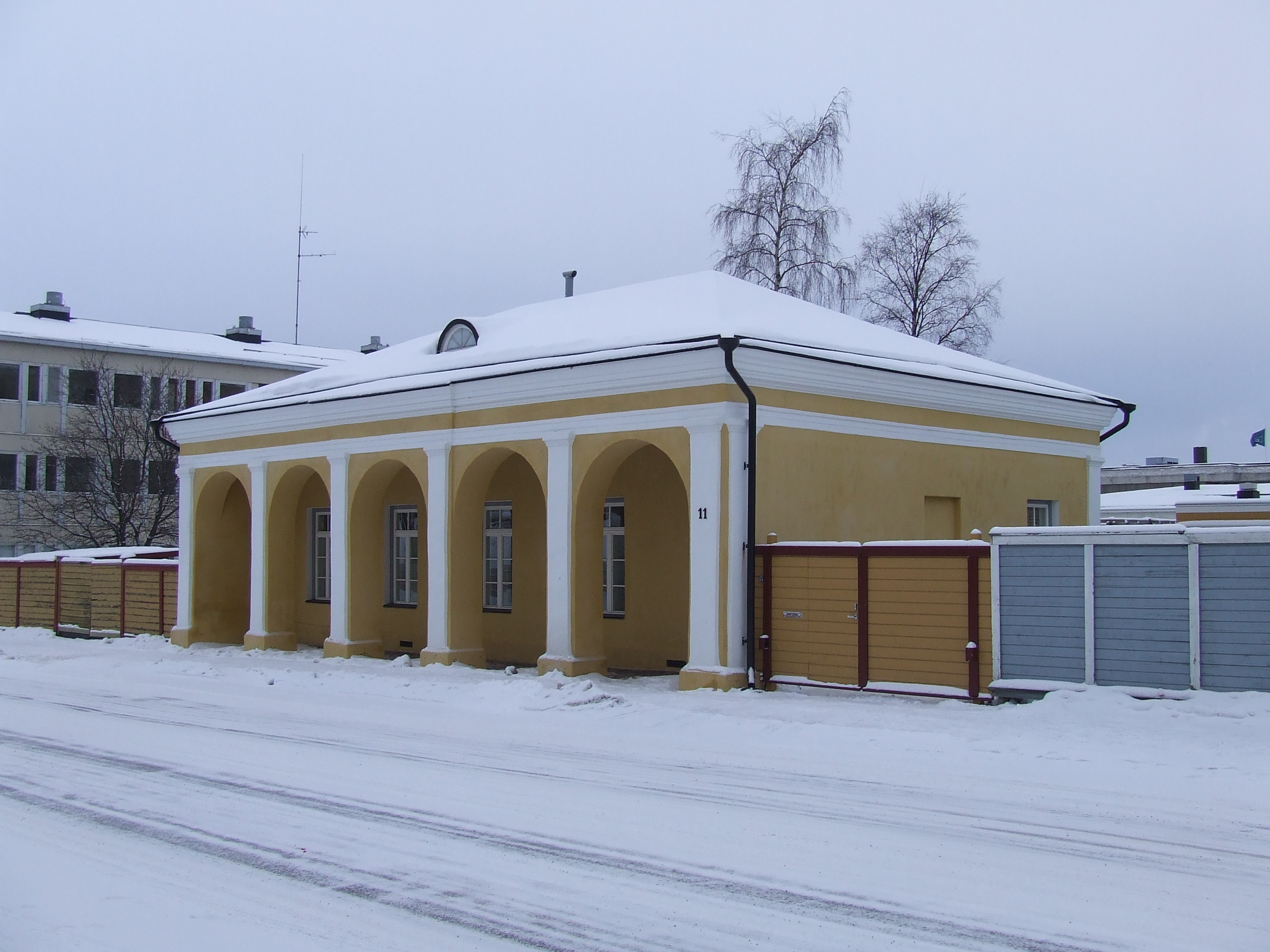 The guardhouse of the old "sea gate", which once led to the harbor, in Hamina, Finland.